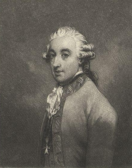 Extracted from Lord John Cavendish; Frederick Ponsonby, 3rd Earl of Bessborough; John Stuart, 1st Marquess of Bute; George Howard, 6th Earl of Carlisle; Ludovico, Count Belgioso; William Davidson.